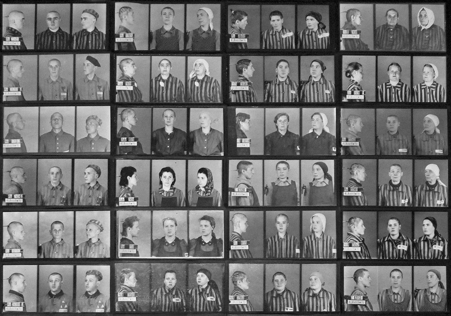 Mugshots of various victims of the concentration camp Auschwitz-Birkenau